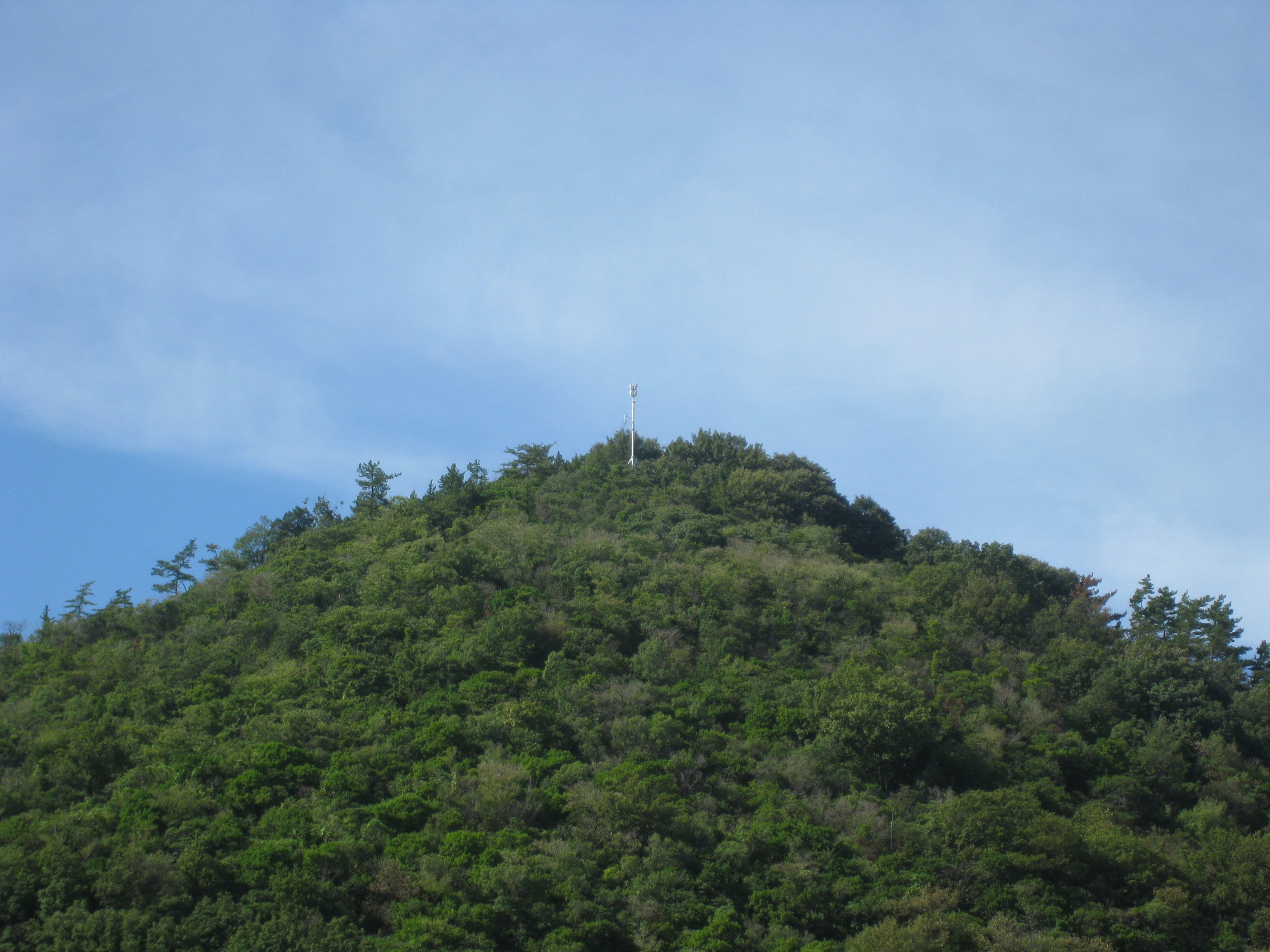 Ritsurin-minami relay station.